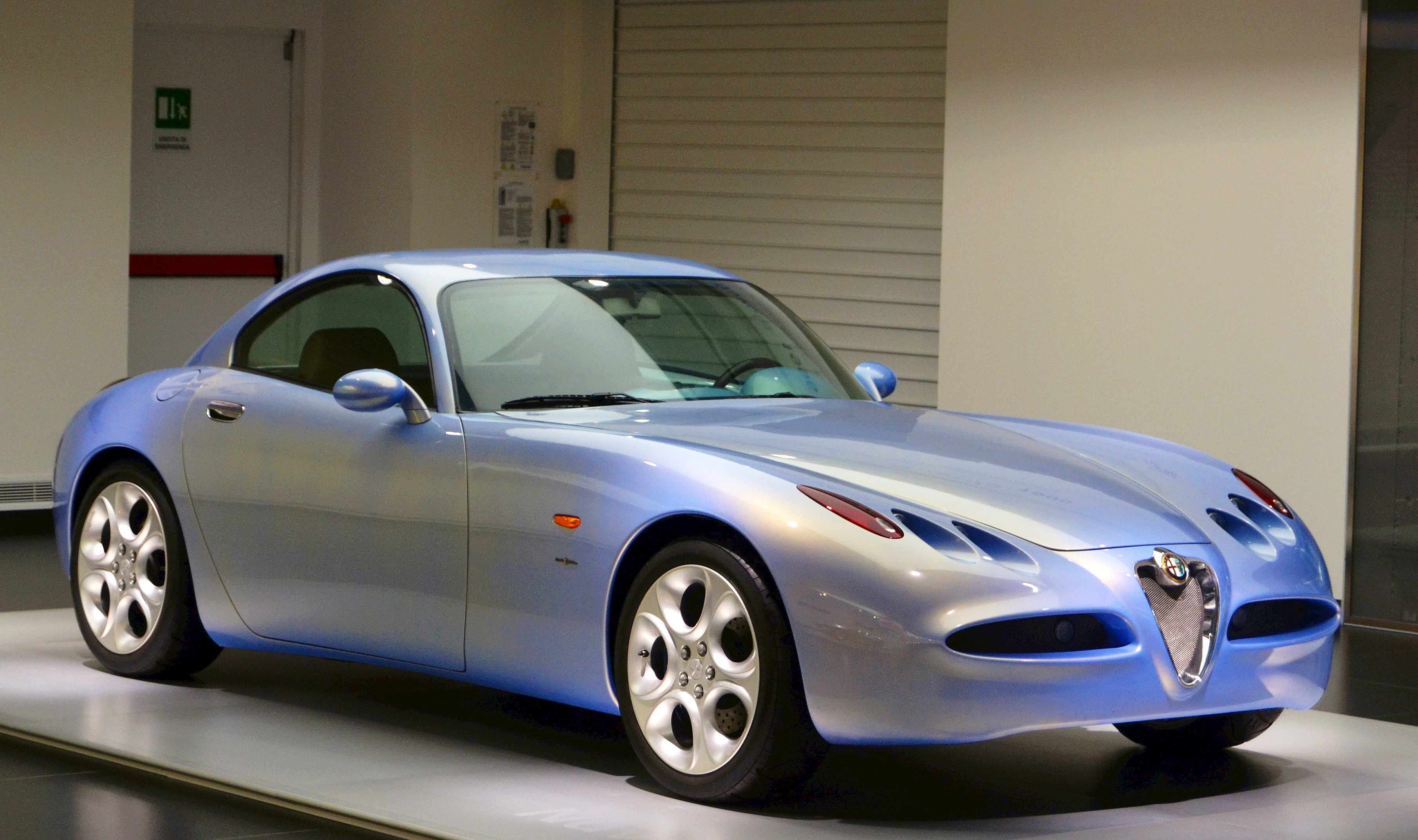 Concept Car Alfa Romeo Nuvola, shown at the Museo Storico Alfa Romeo in Arese, Milano, Italy